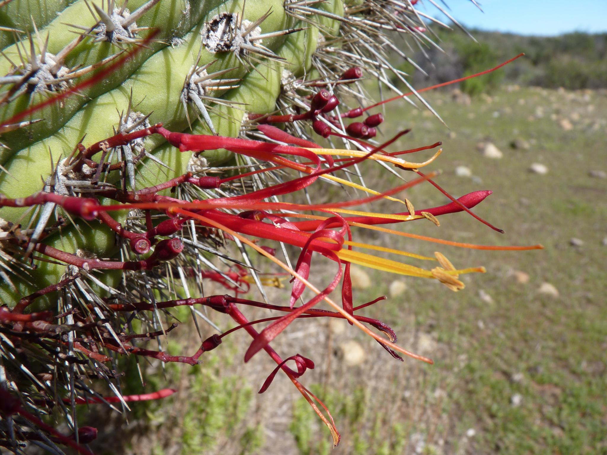 Tristerix aphyllus growing on the columnar cactus, Trichocereus chiloensis